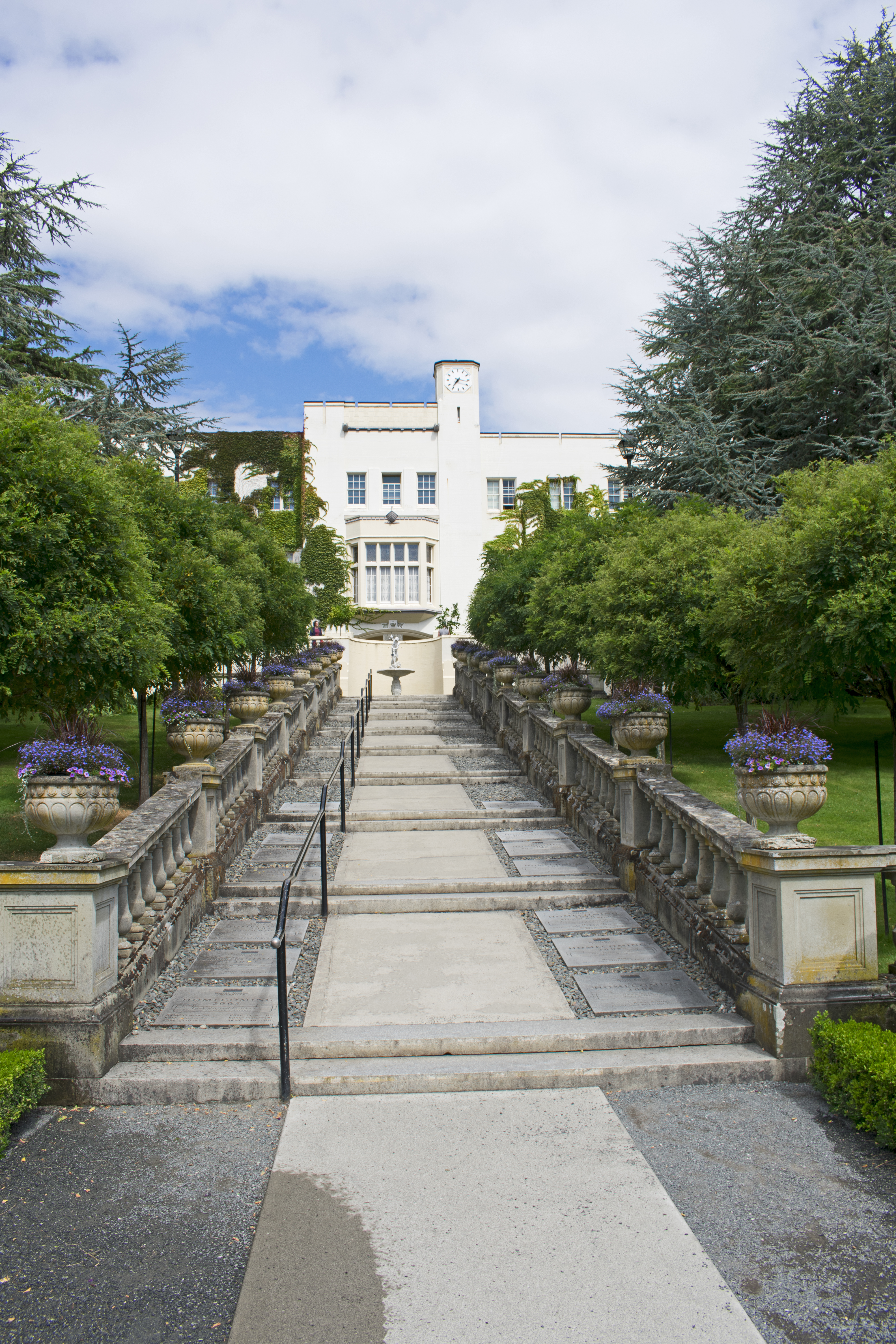 Grant Building seen from Hatley Castle